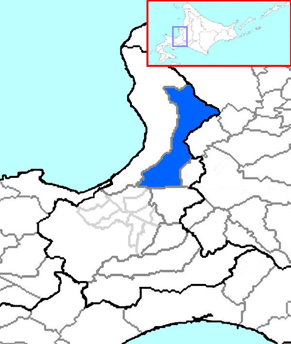 The location of Tobetsu in Ishikari Subprefecture, Hokkaido Prefecture, Japan.